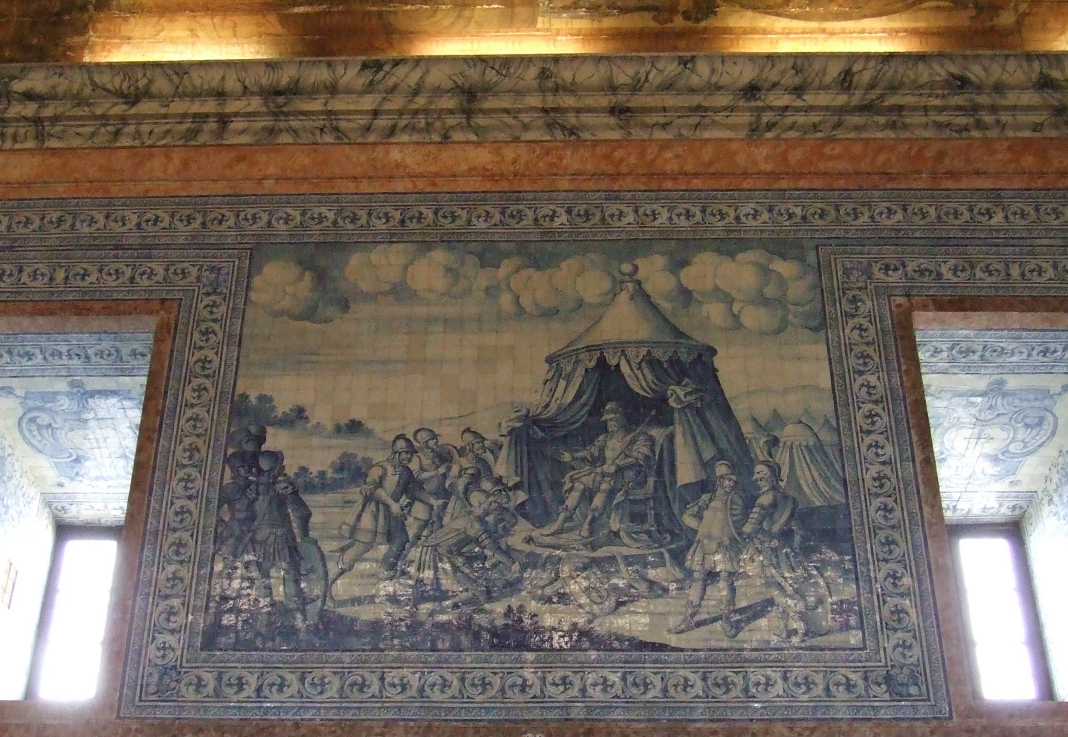 Azulejo panel in Basilica Royal of Castro Verde